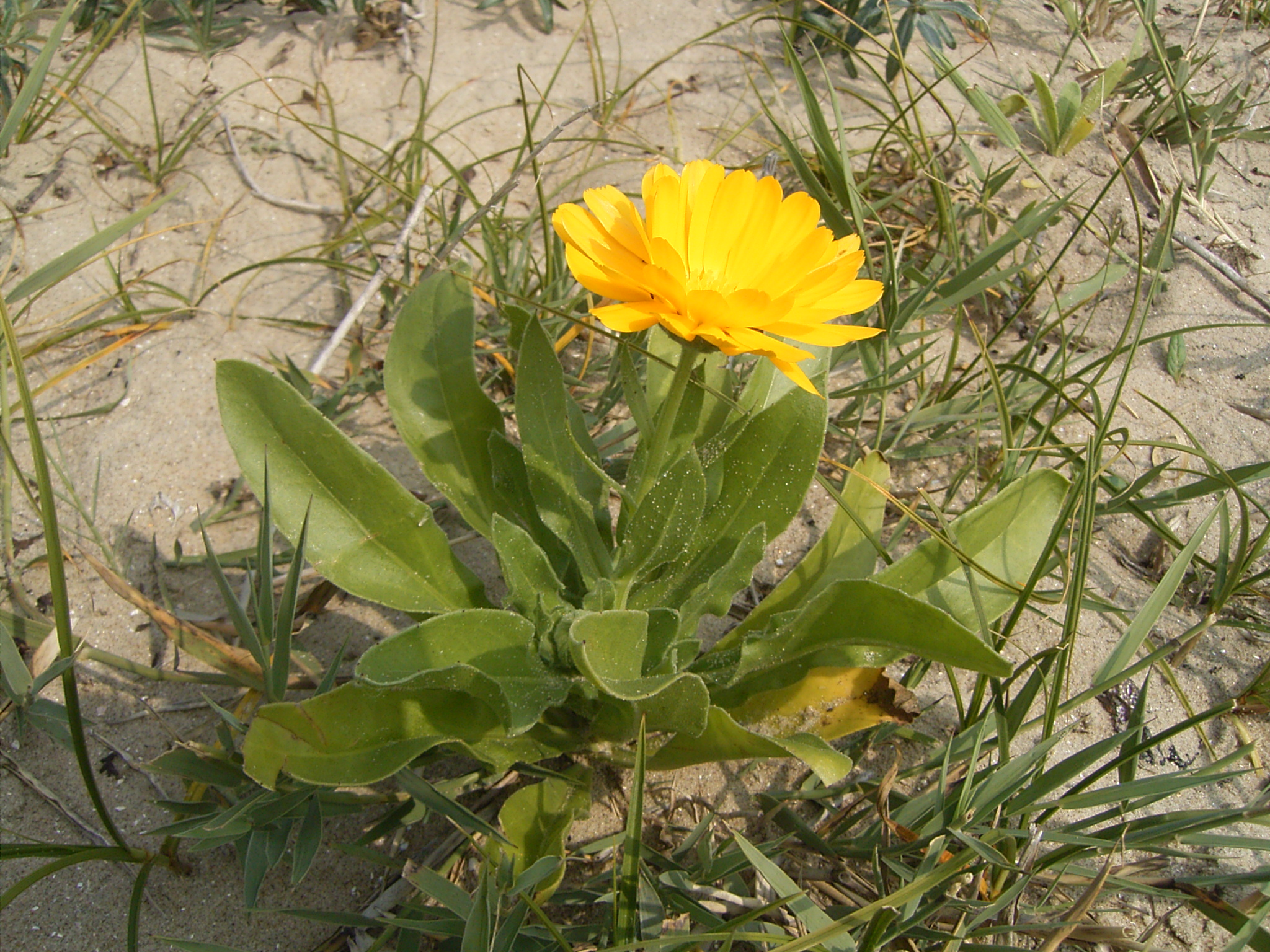 Calendula officinalis